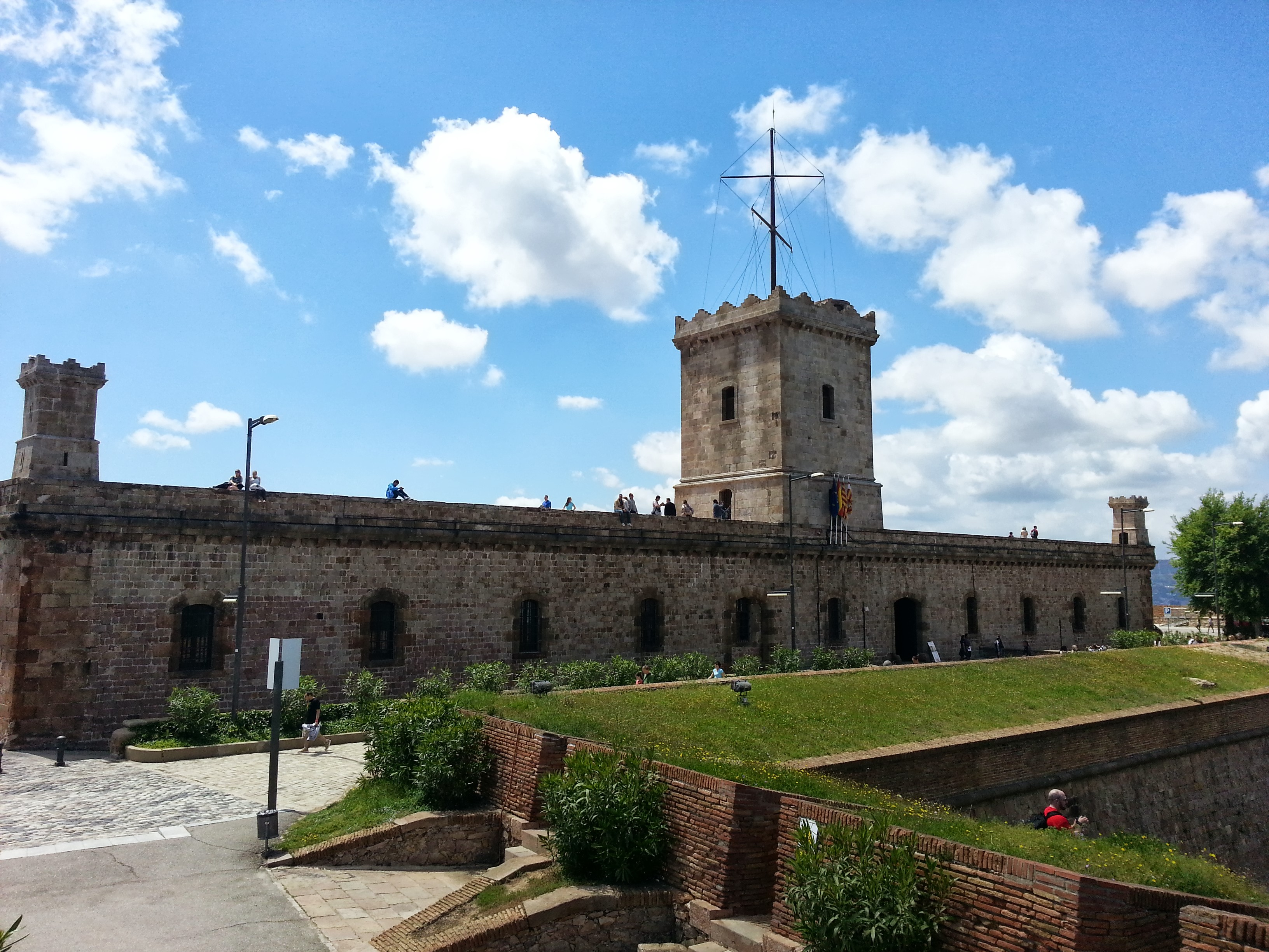 Old medieval fortress situated on top of Montjuic in Barcelona, Spain.